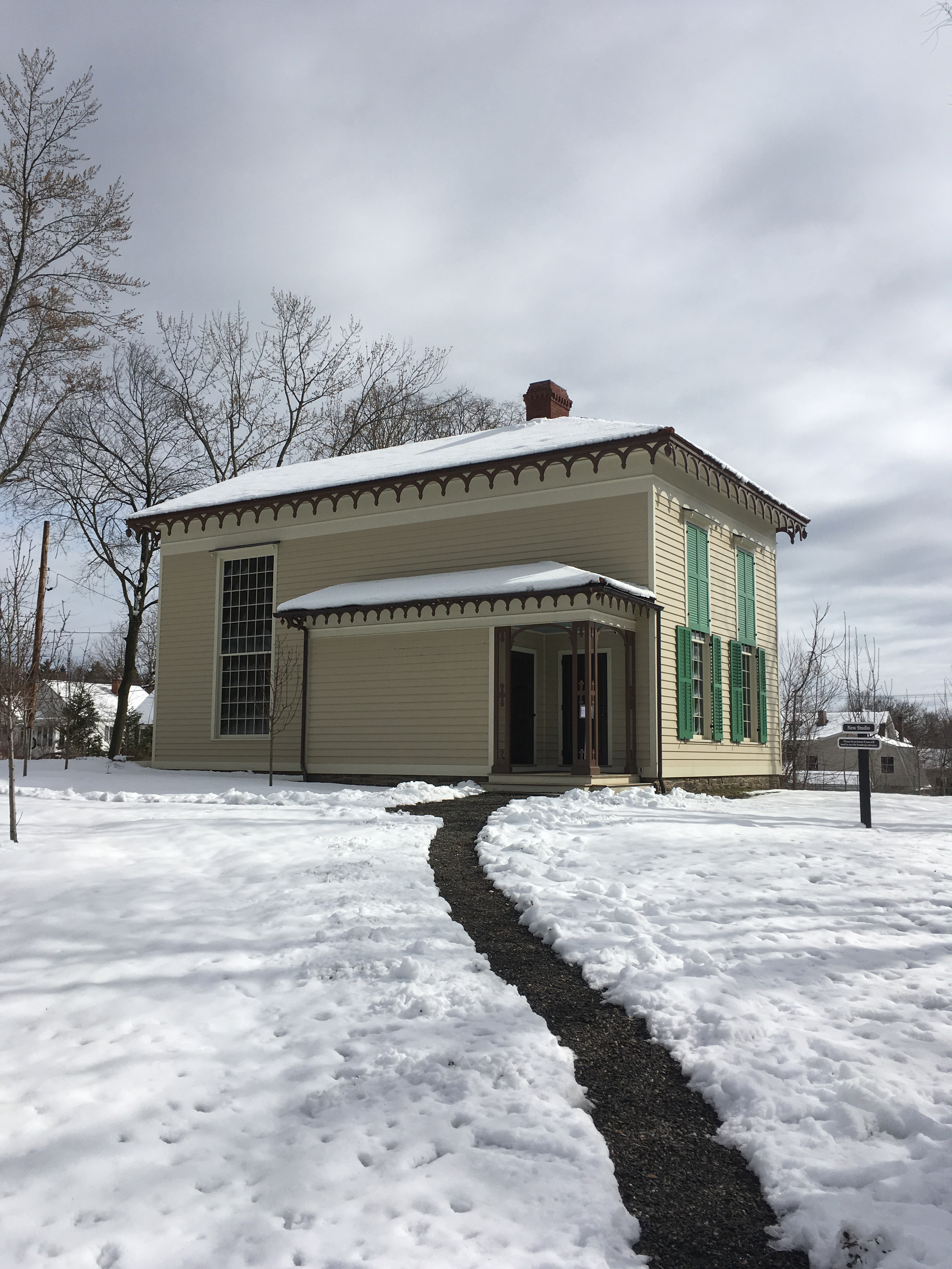 The Thomas Cole National Historic Site in Catskill, New York.